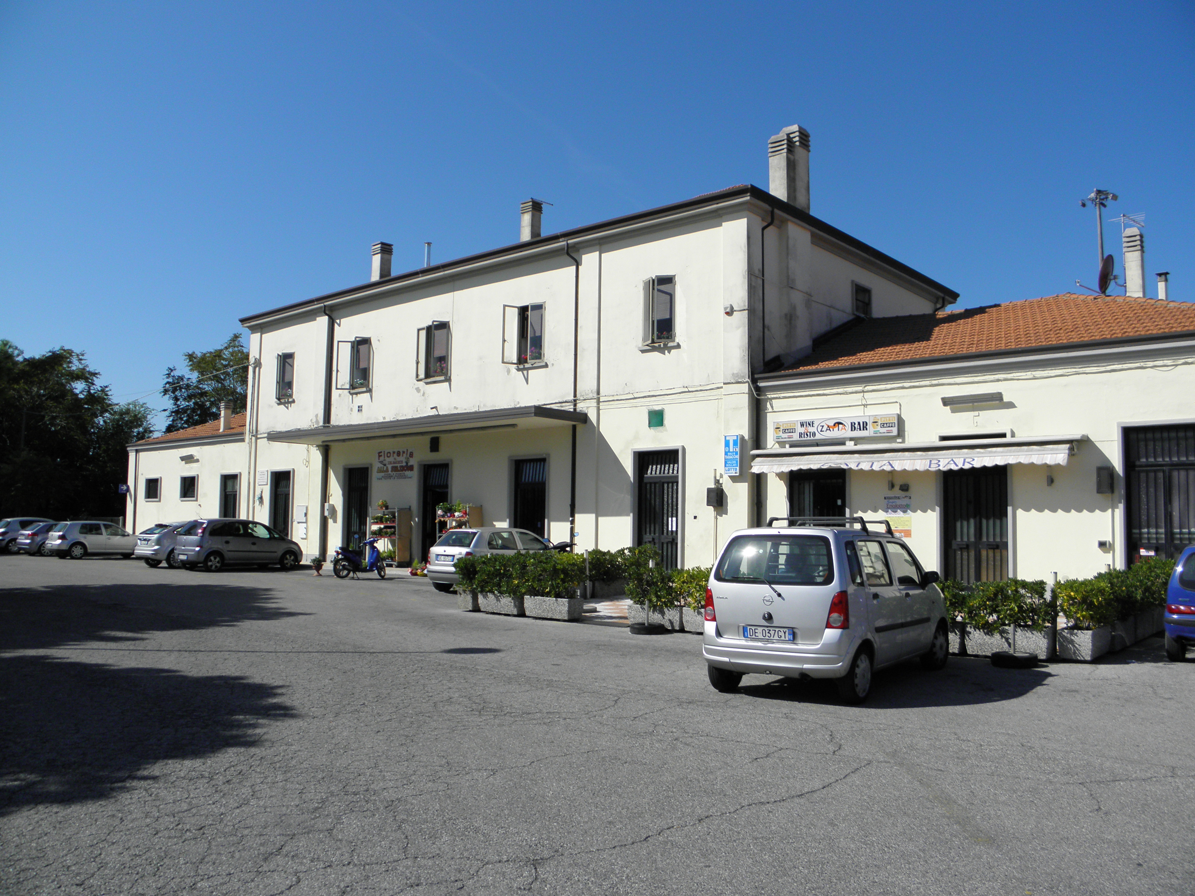 Train station in Chioggia, province of Venice.